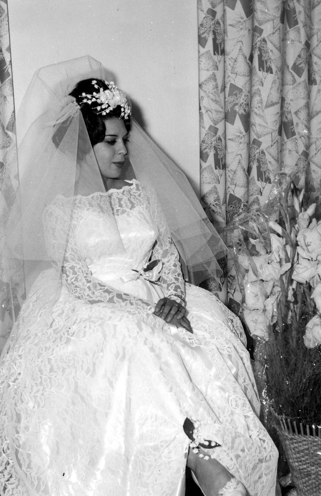 People of Iran